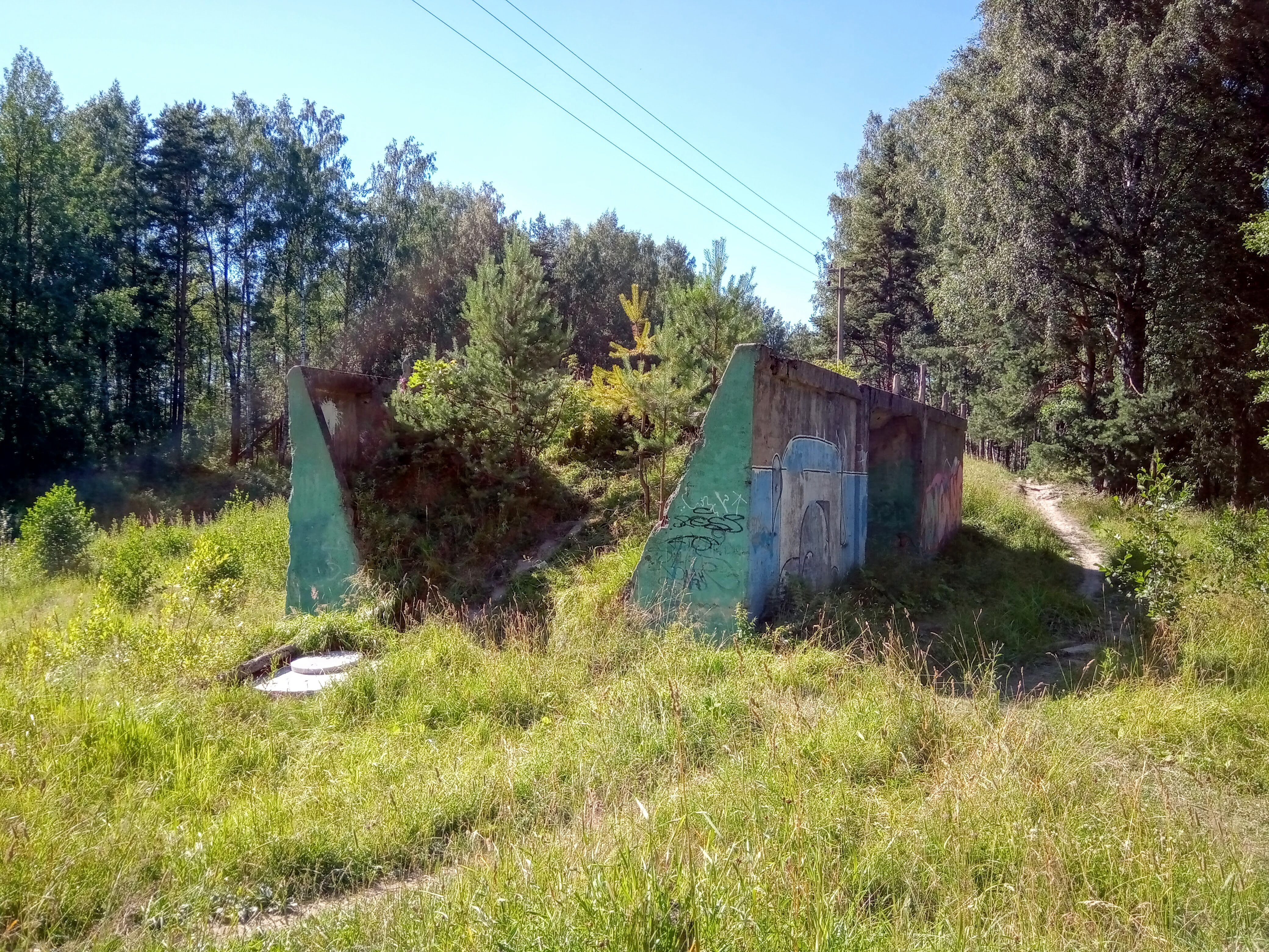 It's one from destroyed bridges of Oranela